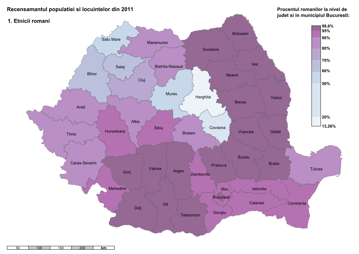 Distribution of ethnic Romanians in Romania according to the 2011 census. Software used: OpenJUMP GIS ( and Inkscape (